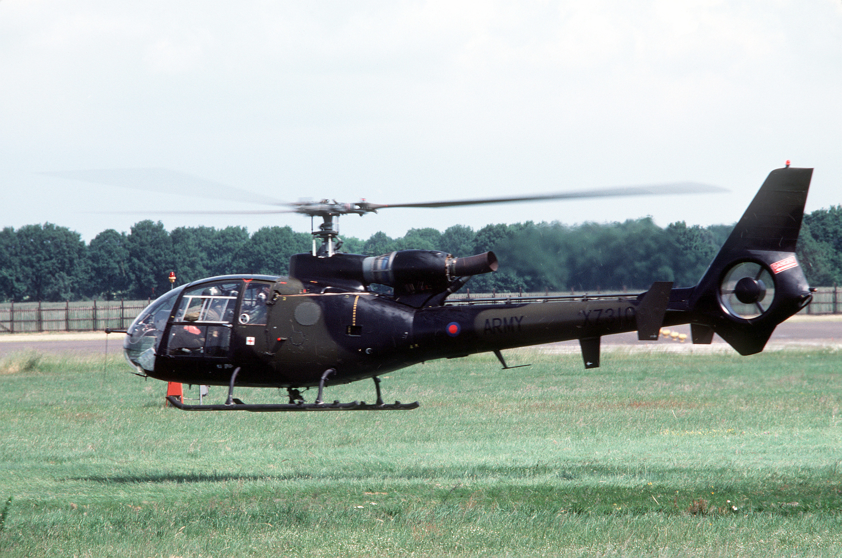 A British Army Westland Gazelle AH1 (Aérospatiale SA 341B) helicopter during exercise "Checkered Flag '83" at Ahlhorn air base, Lower Saxony, Germany, on 25 May 1983.